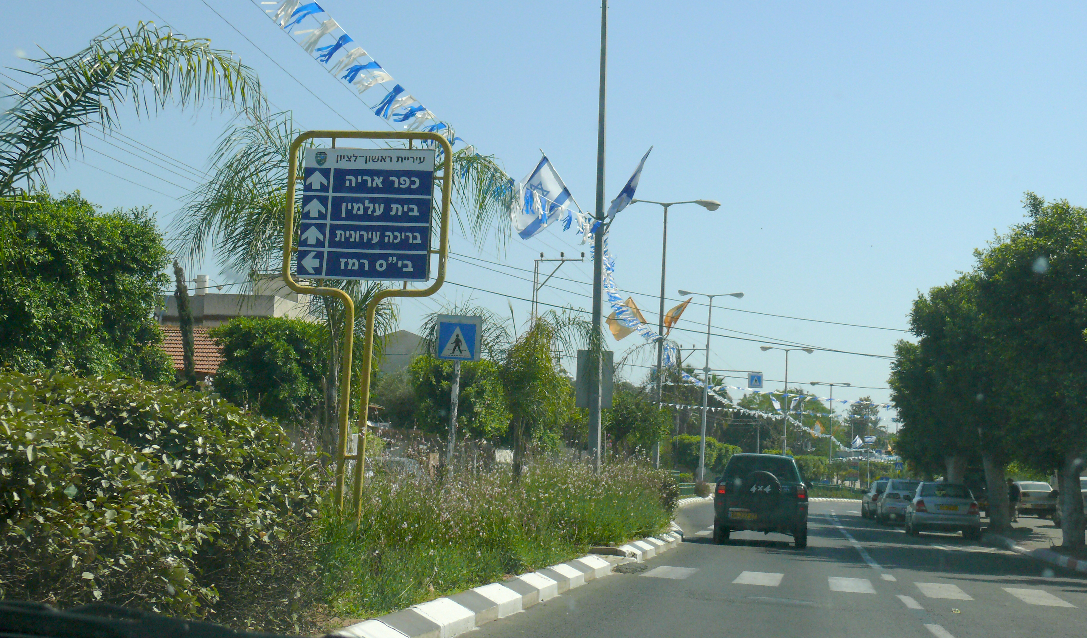 Yaakov boulevards, Rishon LeZion, Israel